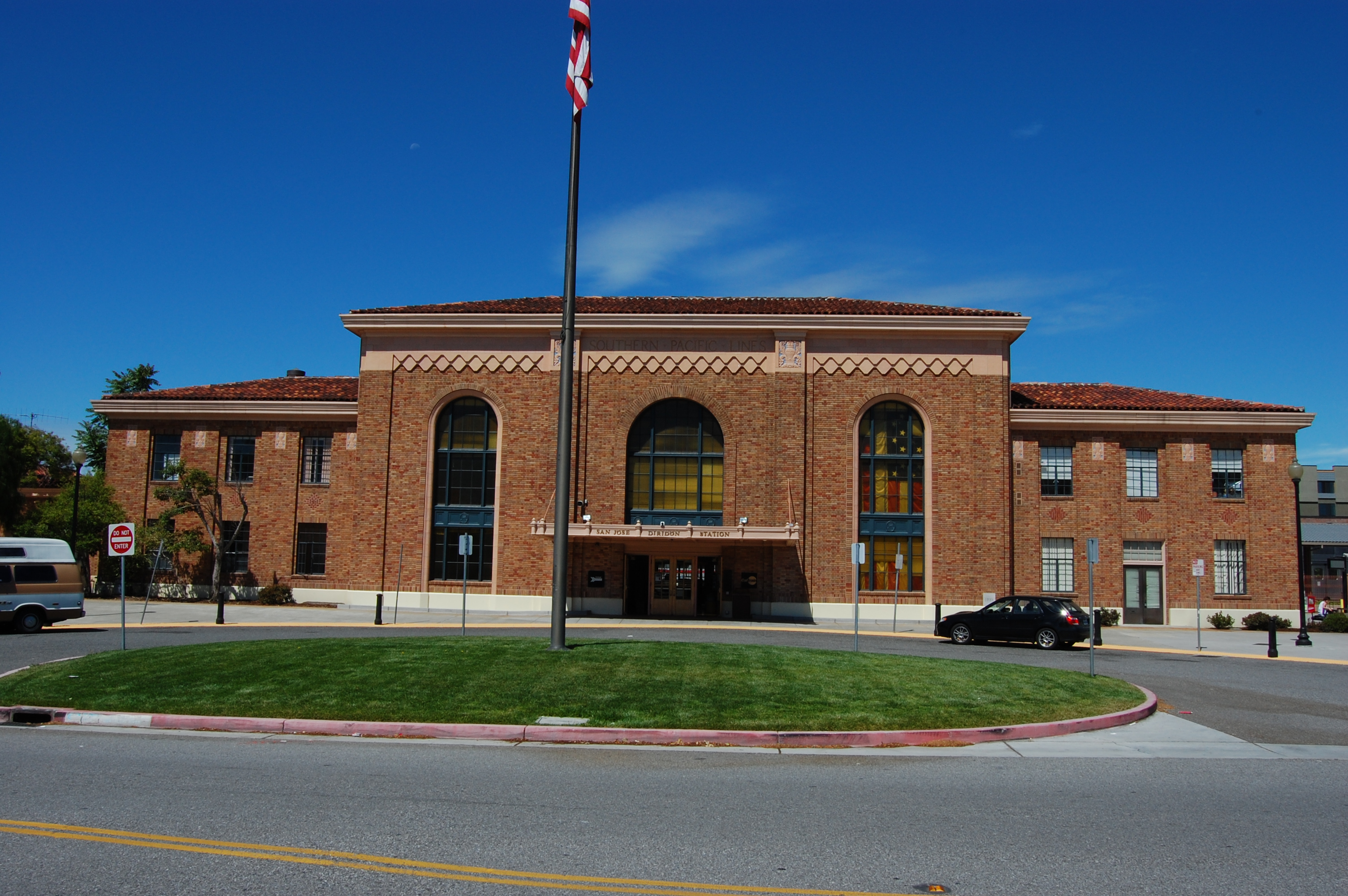 Diridon Station. 65 Cahill Street. San Jose, California, USA